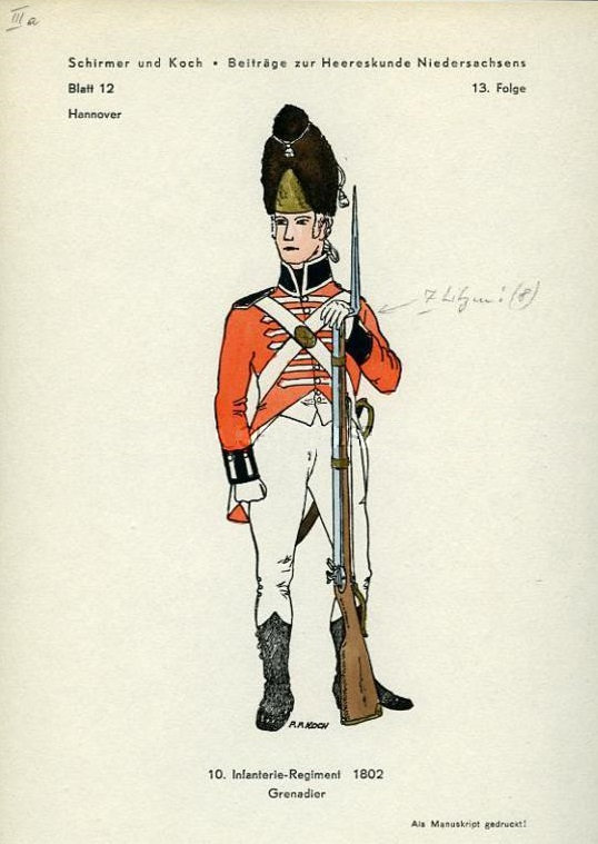 Hanoverian 10. Inf-Rgt. Grenadier 1802